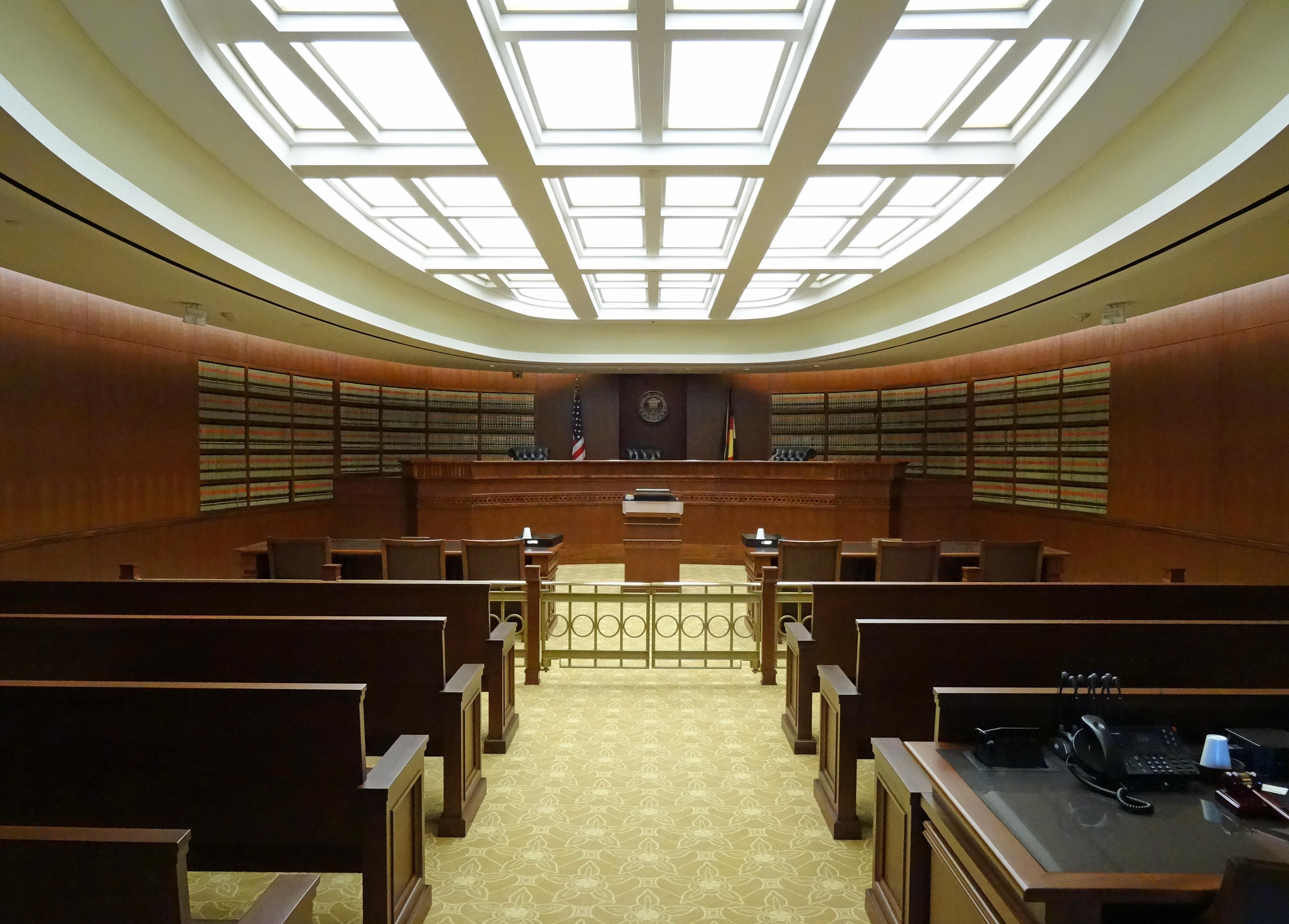 The Colorado Court of Appeals courtroom, located on the third floor of the Ralph L. Carr Colorado Judicial Center, located at 2 East 14th Avenue in Denver, Colorado.